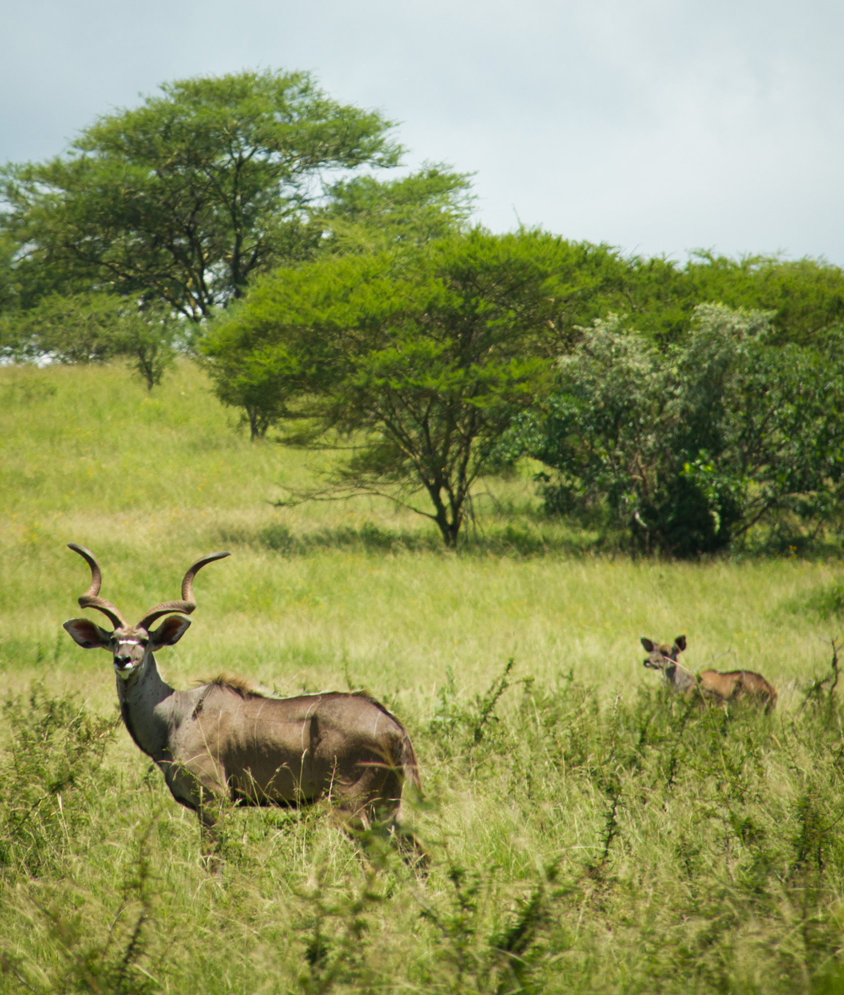 Greater kudus, male and female, in Nechisar National Park, Ethiopia